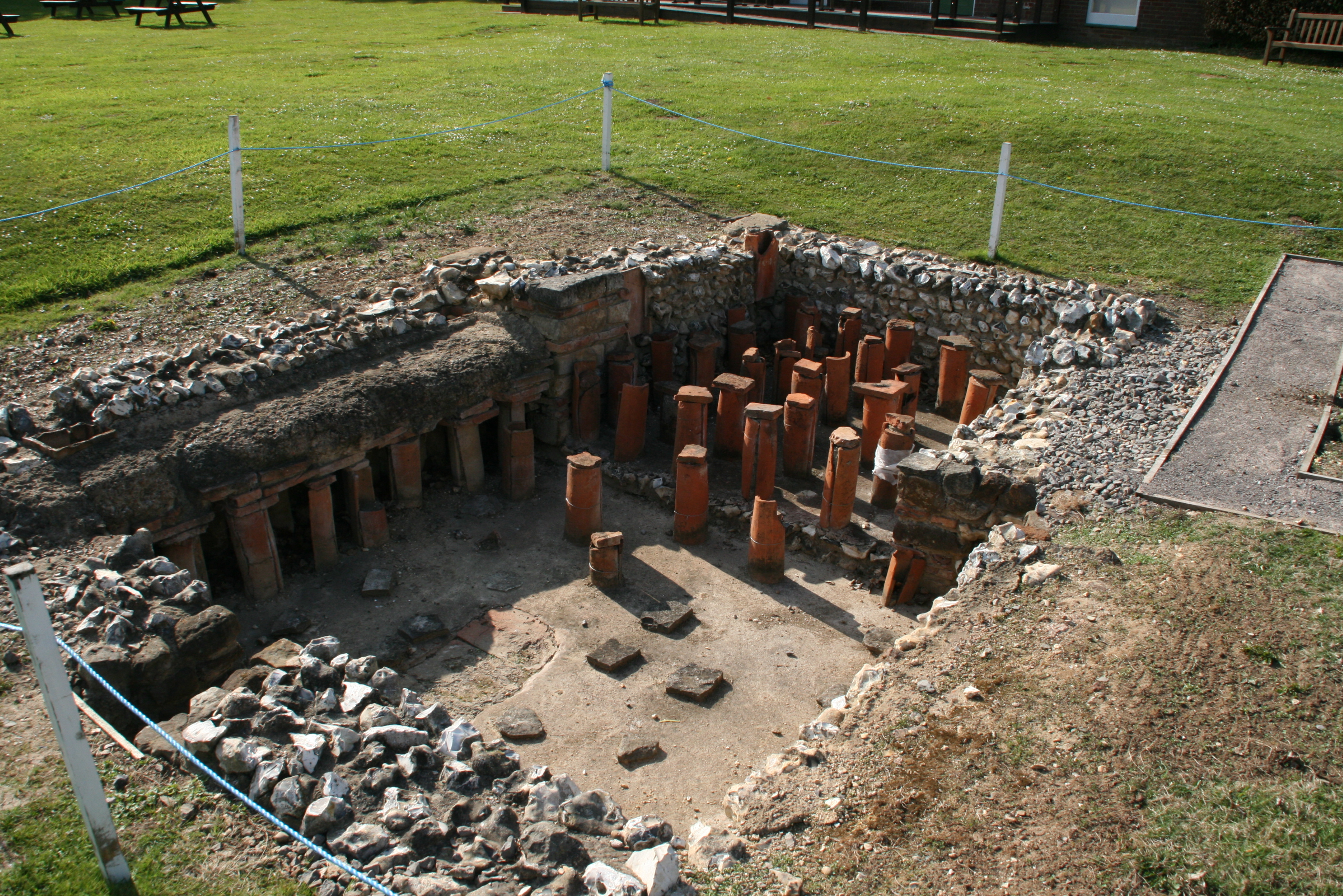 Rockbourne Roman villa. Hypocaustum